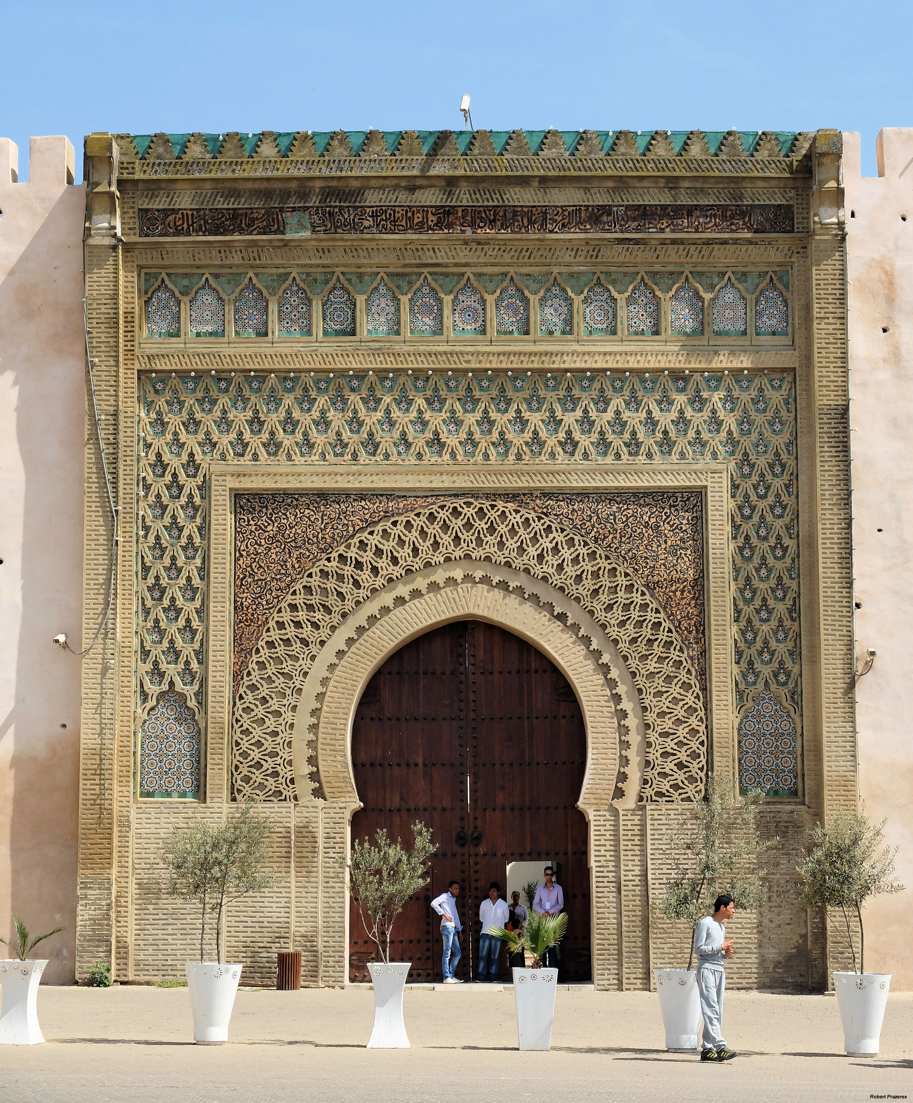 Bab Jama' en-Nouar, Meknes; located to the right of Bab al-Mansour, and probably dating from the same period